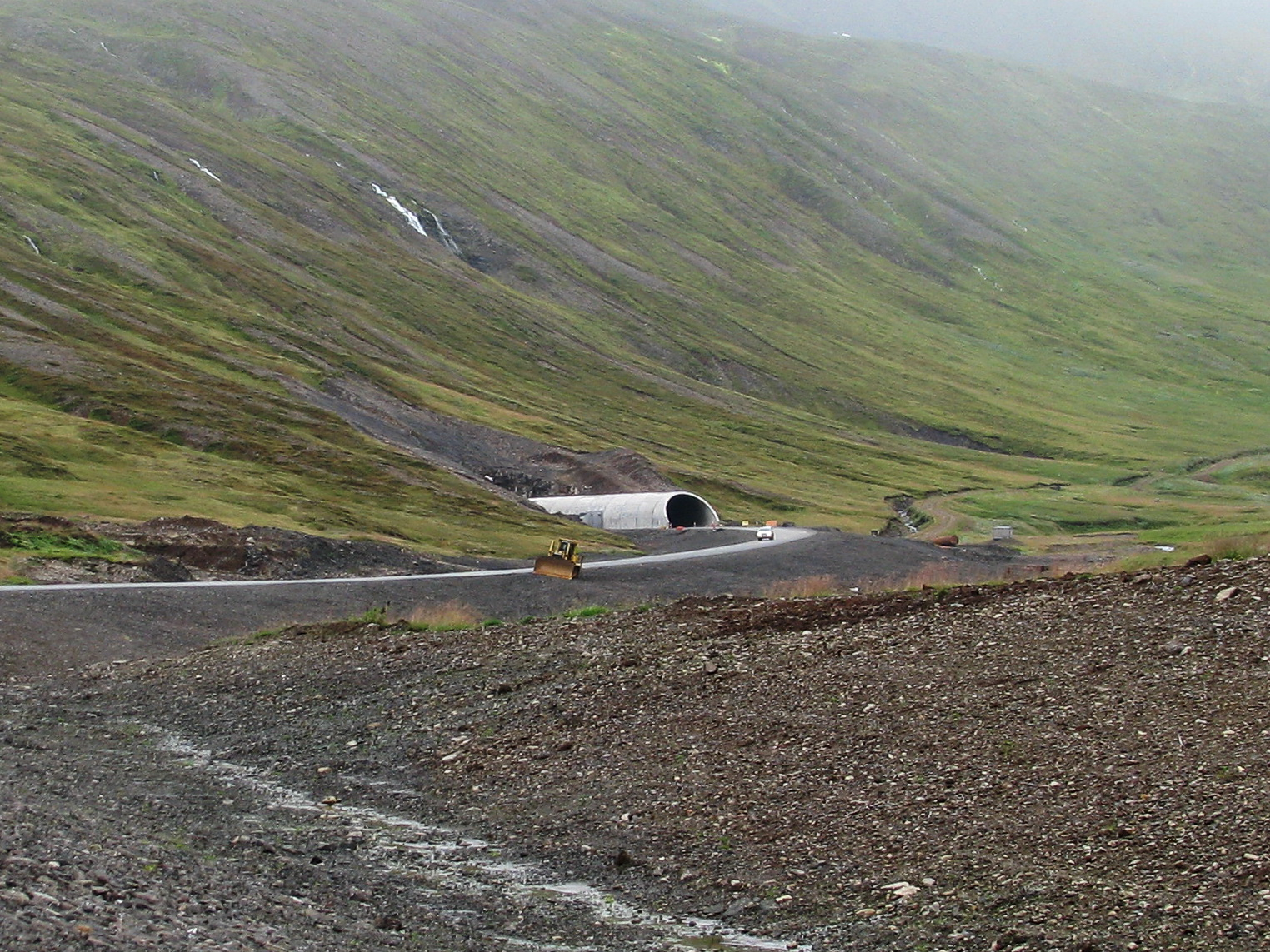 The entrance of the Hédinsfjardargöng under construction at Siglufjördur, a town in the north of Iceland.